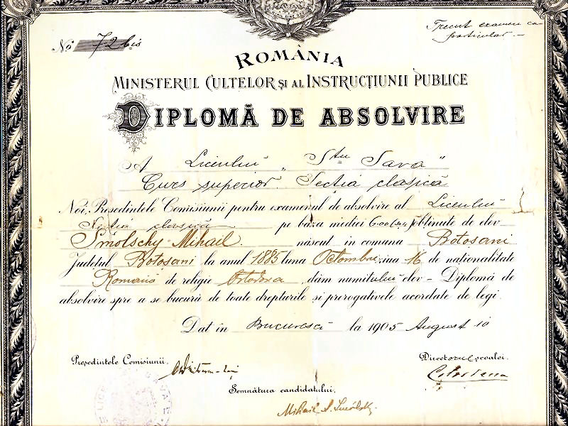 Saint Sava High School graduation diploma, awarded to the Romanian writer Mihail Sorbul (Mihail Smolschy)